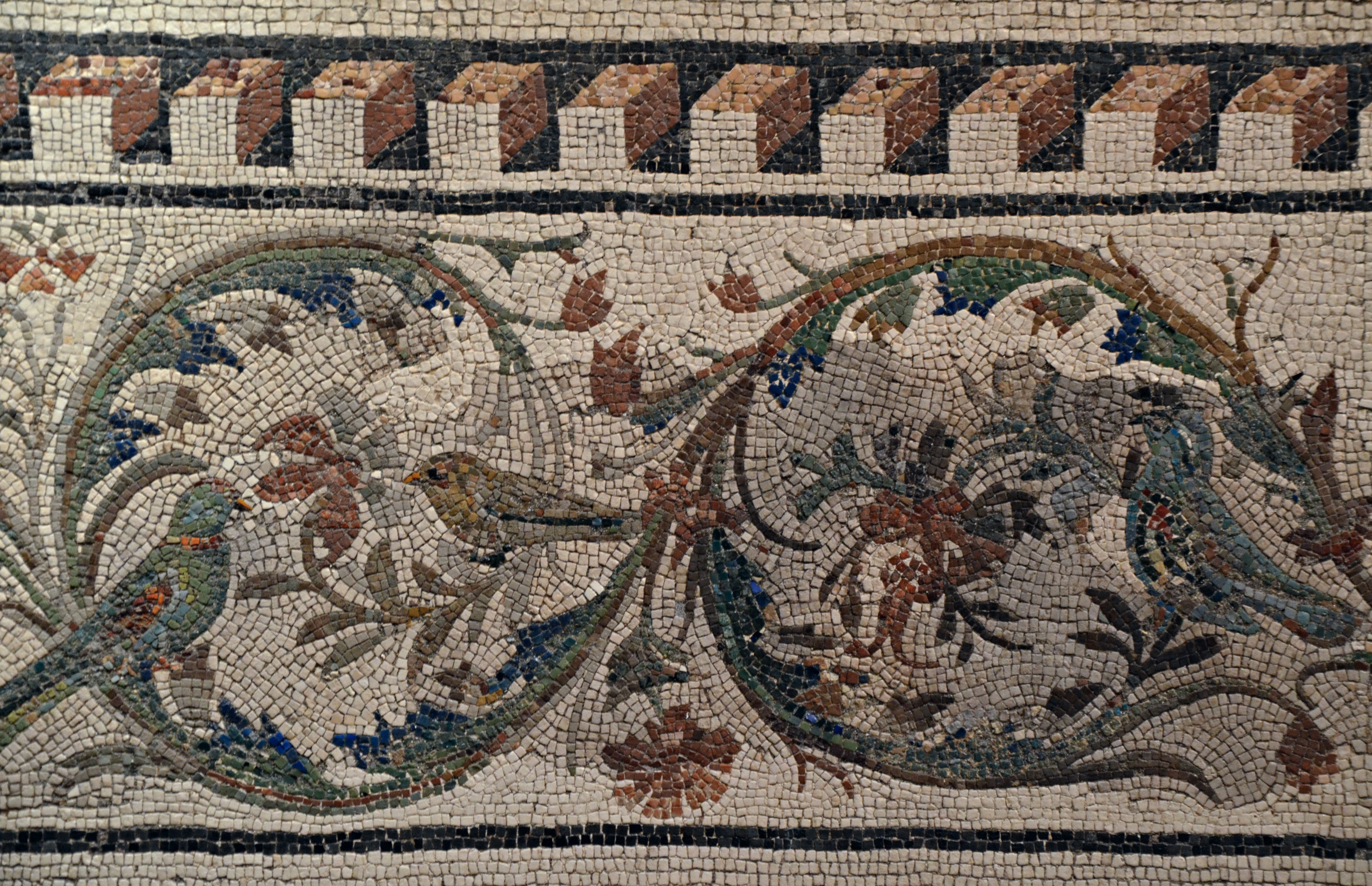 Mosaic border of acanthus spirals and animals, from the Via Panisperna in Rome, late 2nd - early Ist century BC, it once decorated the pool of a Roman bath, Centrale Montemartini, Rome